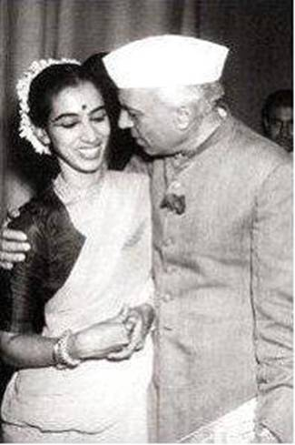 Jawaharlal Nehru with Mrinalini Sarabhai, wife of physicist Vikram Sarabhai, after Mrinalini performed Manushya (a dance-drama) in New Delhi in 1948. A few years after it was taken, this photograph was published in a Swiss paper with a caption which read that the image was forbidden for publication in India. (